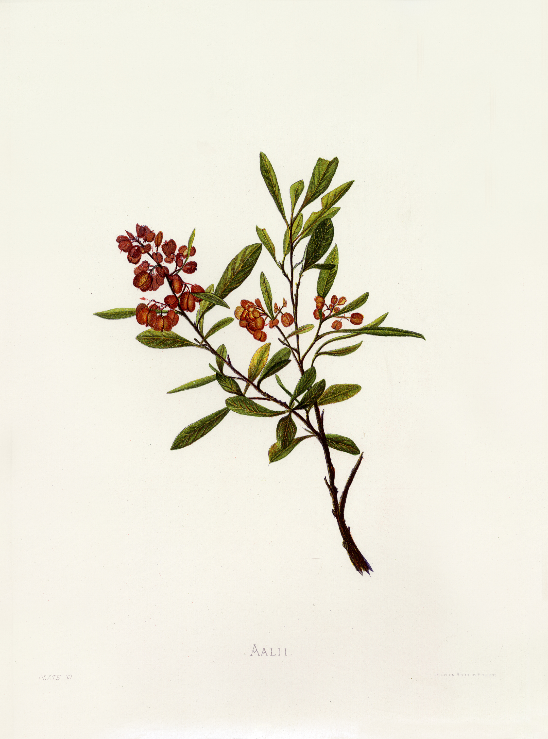 Indigenous Flowers of the Hawaiian Islands by Mrs. Frances Sinclair, Plate 39 (Dodonaea viscosa)